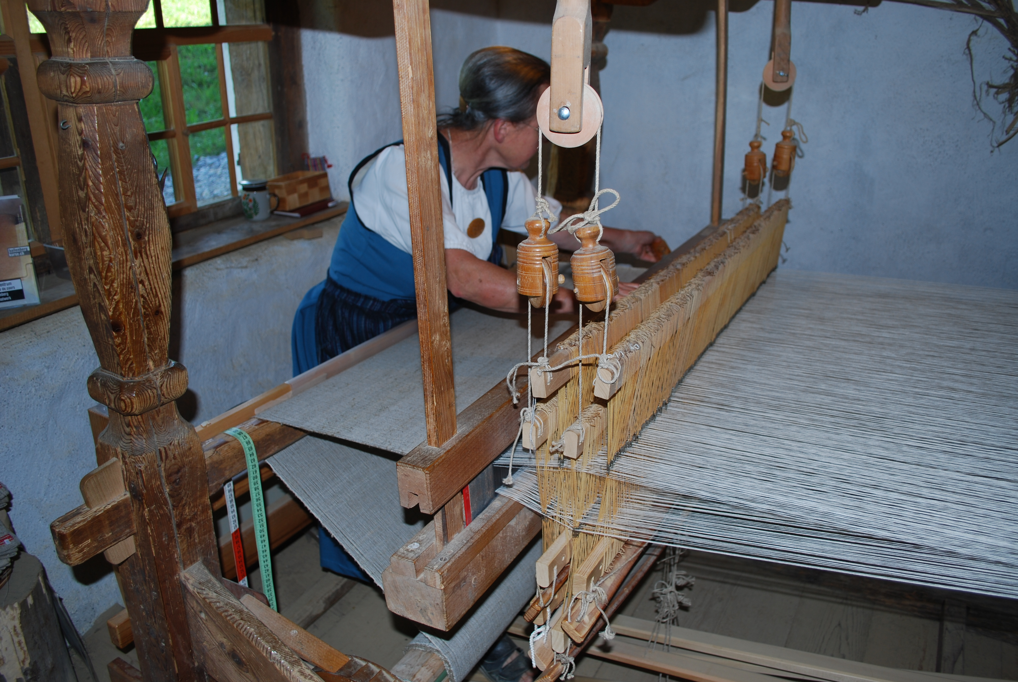 Working on an old manual loom.